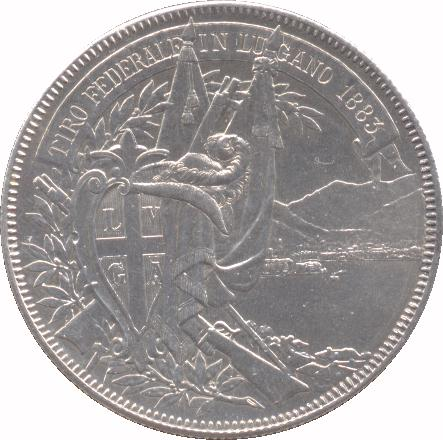 1883 Shooting Thaler Reverse